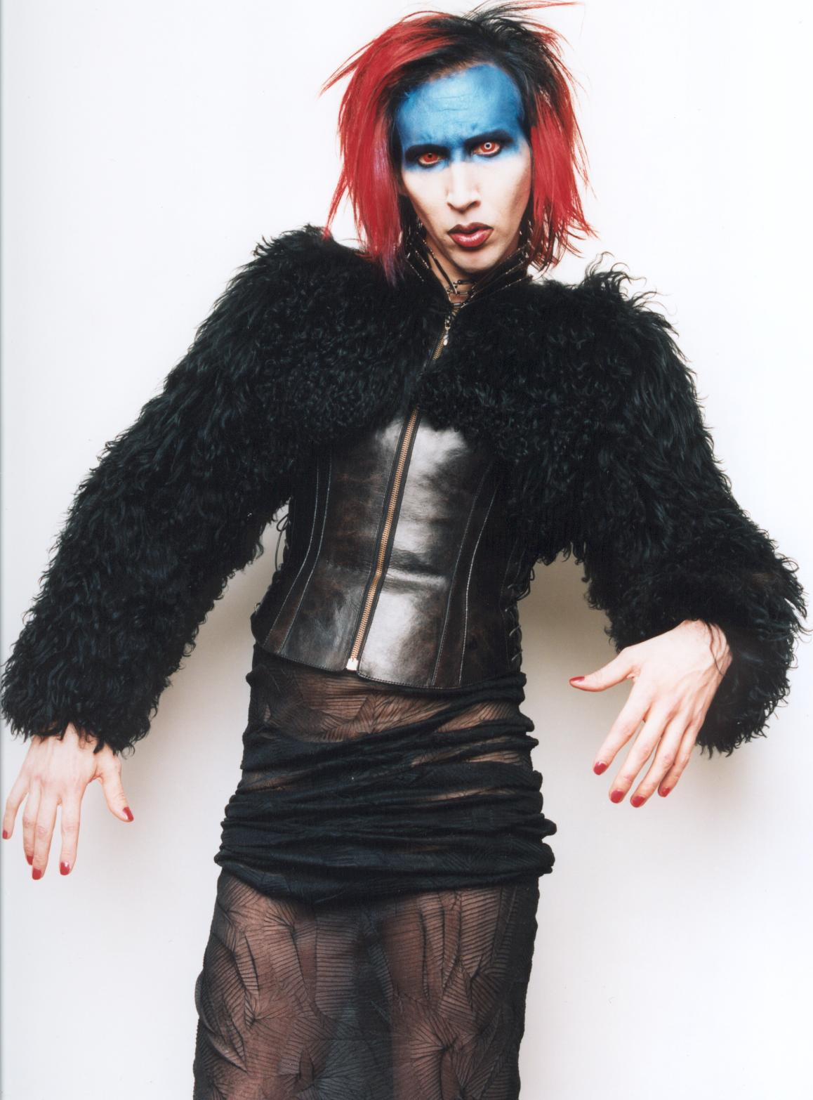 Photograph of Marilyn Manson during the Mechanical Animals era. Taken by Patrick "Paddy" Whitaker